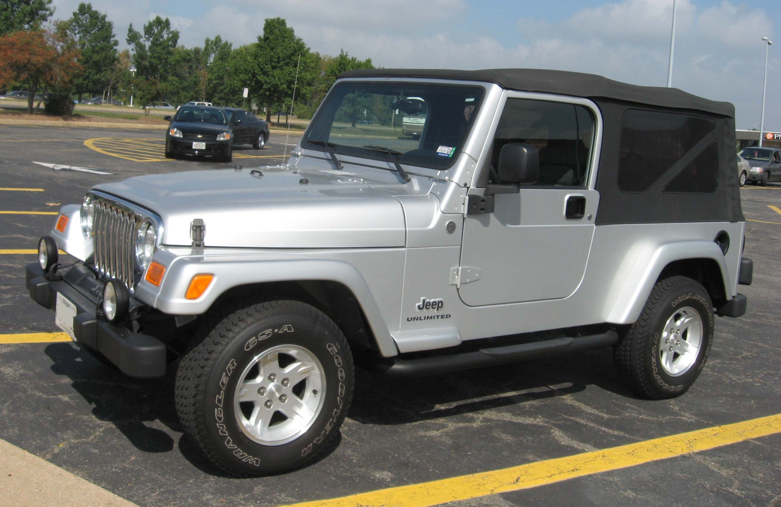 2004-2006 Jeep Wrangler photographed in Waldorf, Maryland, USA.